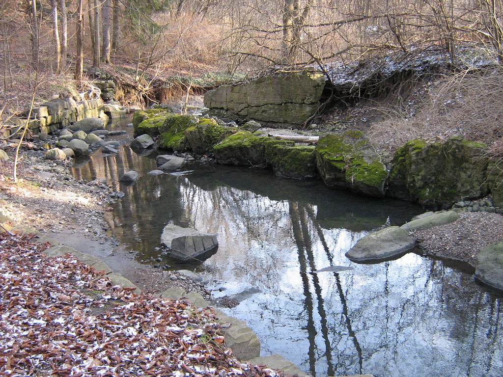 Yello Creek, Toronto, Canada